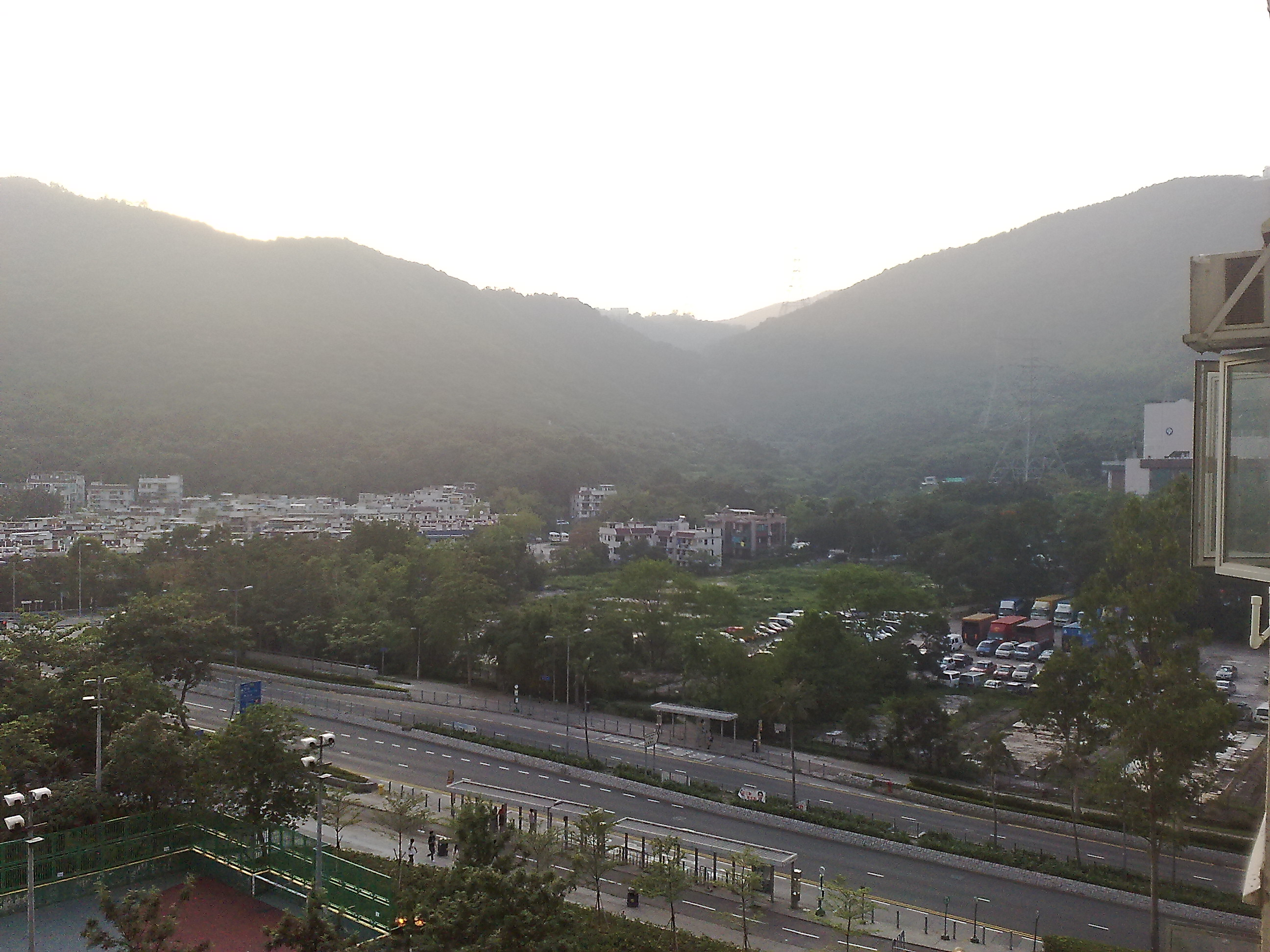 This image is the south - east view of Tseung Kwan O Village which is taken from Po Yan House, PO Lam Estate, Hong Kong. If you have any questions about the licensing (like cc-by-sa, GFDL), or you want to republish the image without using the licensing shown as below, you are welcome to leave a message on the User Talk Page of my Chinese Wikipedia account. 中文（香港）: 這照片是從東南面拍下將軍澳村，拍攝地點是香港新界將軍澳寶林邨寶仁樓。 如你對這照片版權許可協議 (例cc-by-sa, GFDL) 有疑問，或你想把照片不用以下的版權協議轉載，歡迎你到我在中文維基百科的用戶對話頁留言。